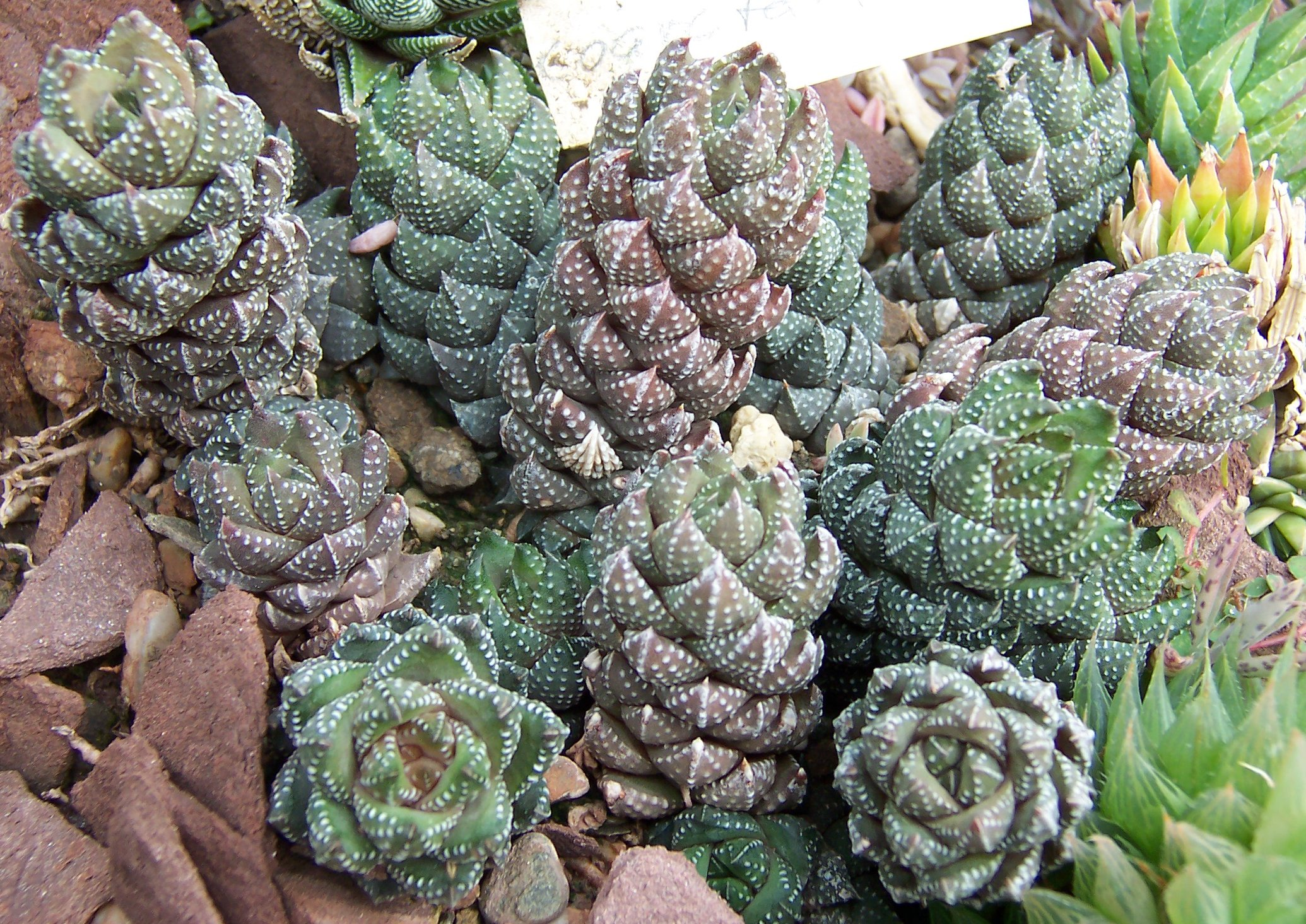 Haworthiopsis coarctata (syn. Haworthia coarctata), habitus